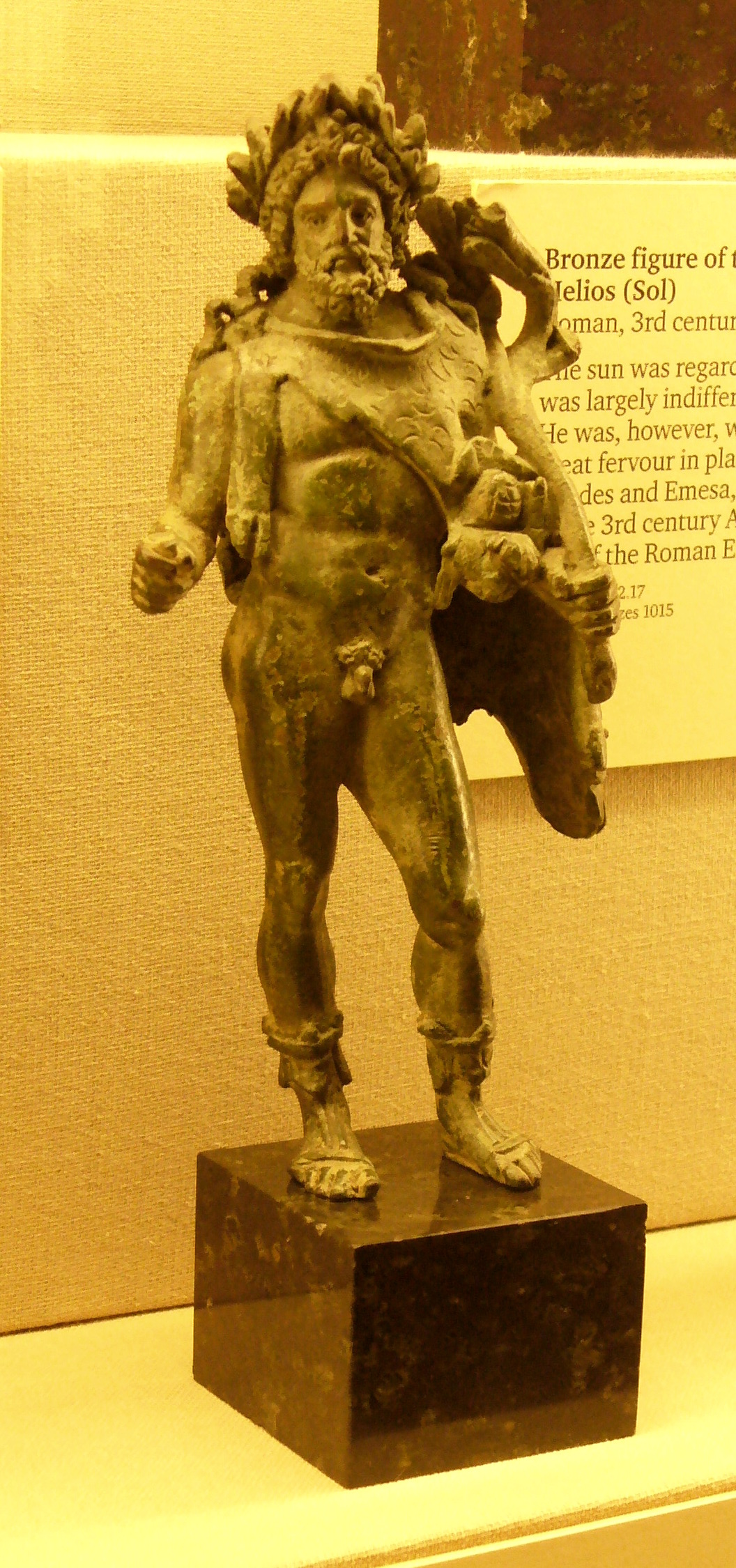 A bronze of the Roman god Silvanus, now in the British Museum.